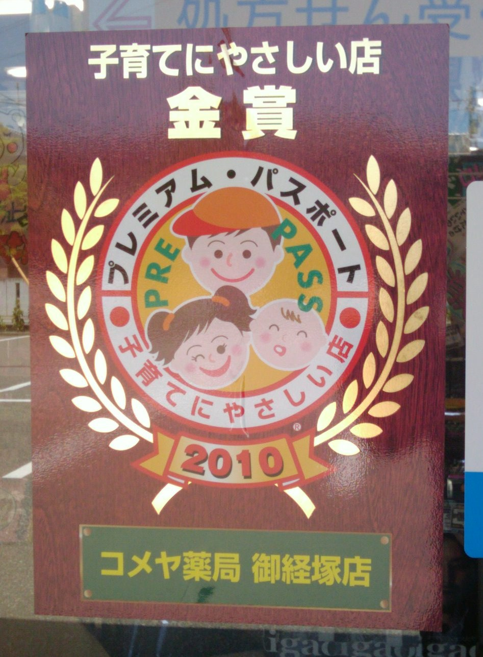 'Premium passport' golden sticker in Nonoichi, Ishikawa, Japan. 2011.08.14